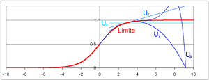 Application of the fixed point theorem to proove Cauchy-Lipschitz theorem (2)